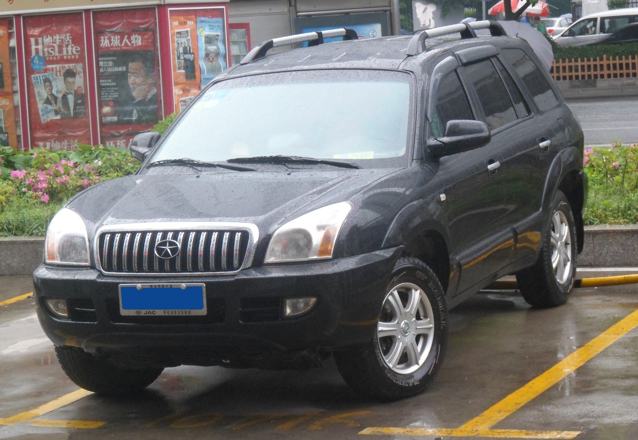 JAC Rein photographed in Shanghai, China.